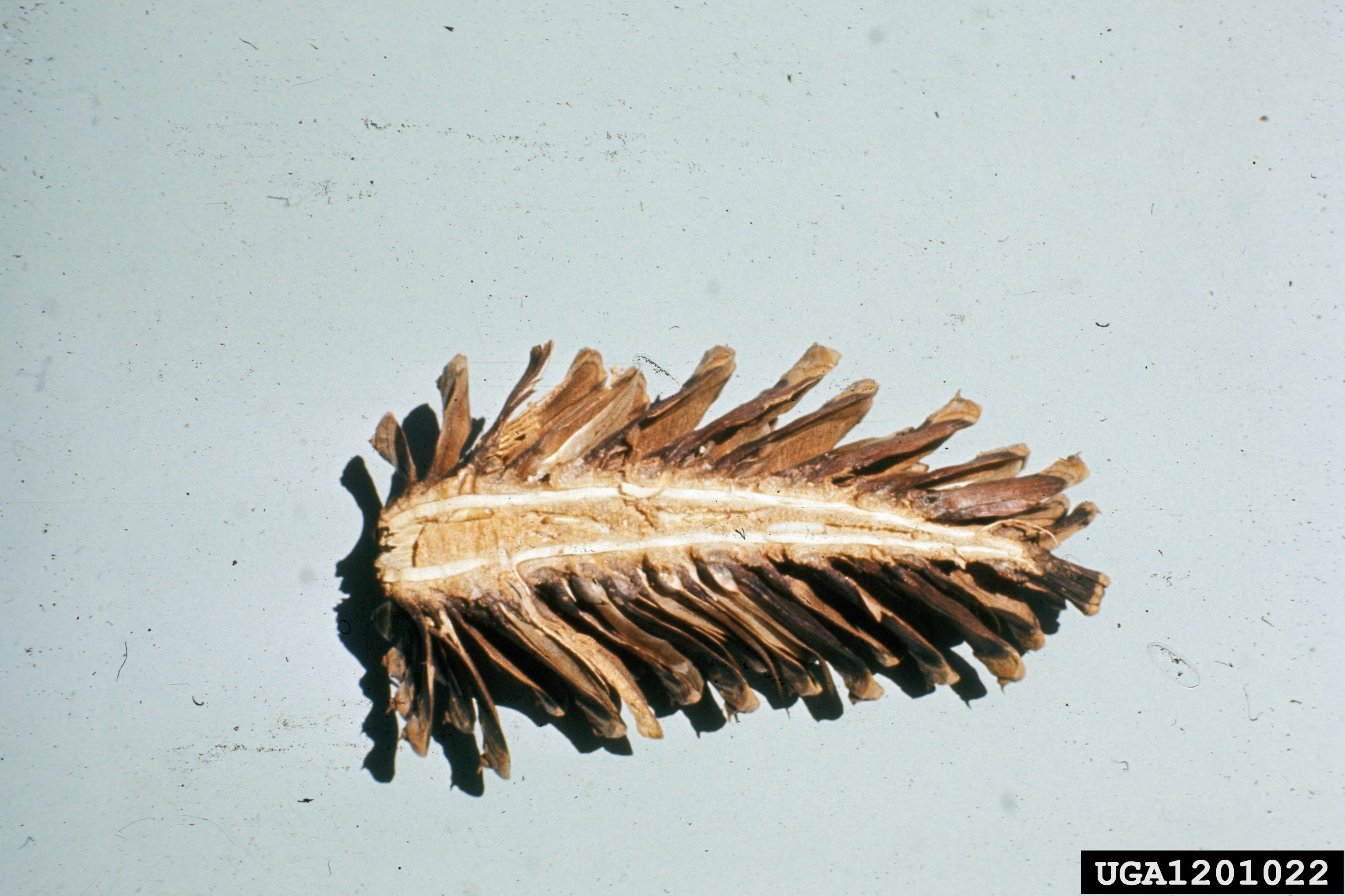 Cydia piperana larva